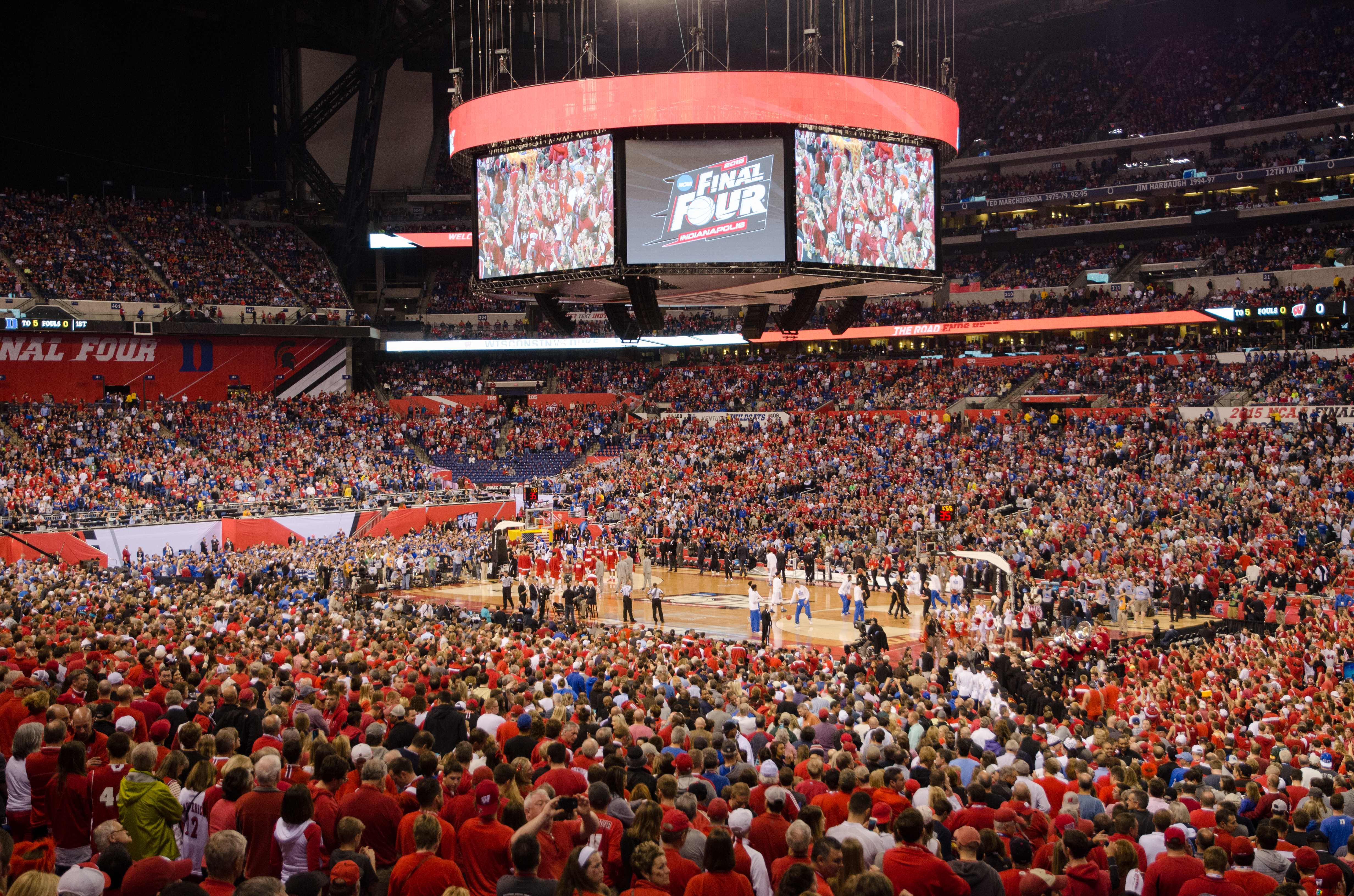 Pregame warm-ups for the 2015 NCAA men's Division I basketball championship game between the Duke Blue Devils and Wisconsin Badgers at Lucas Oil Stadium in Indianapolis, Indiana